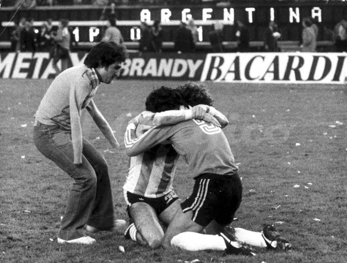 El abrazo del alma, probably the most famous photo by Ricardo Alfieri.